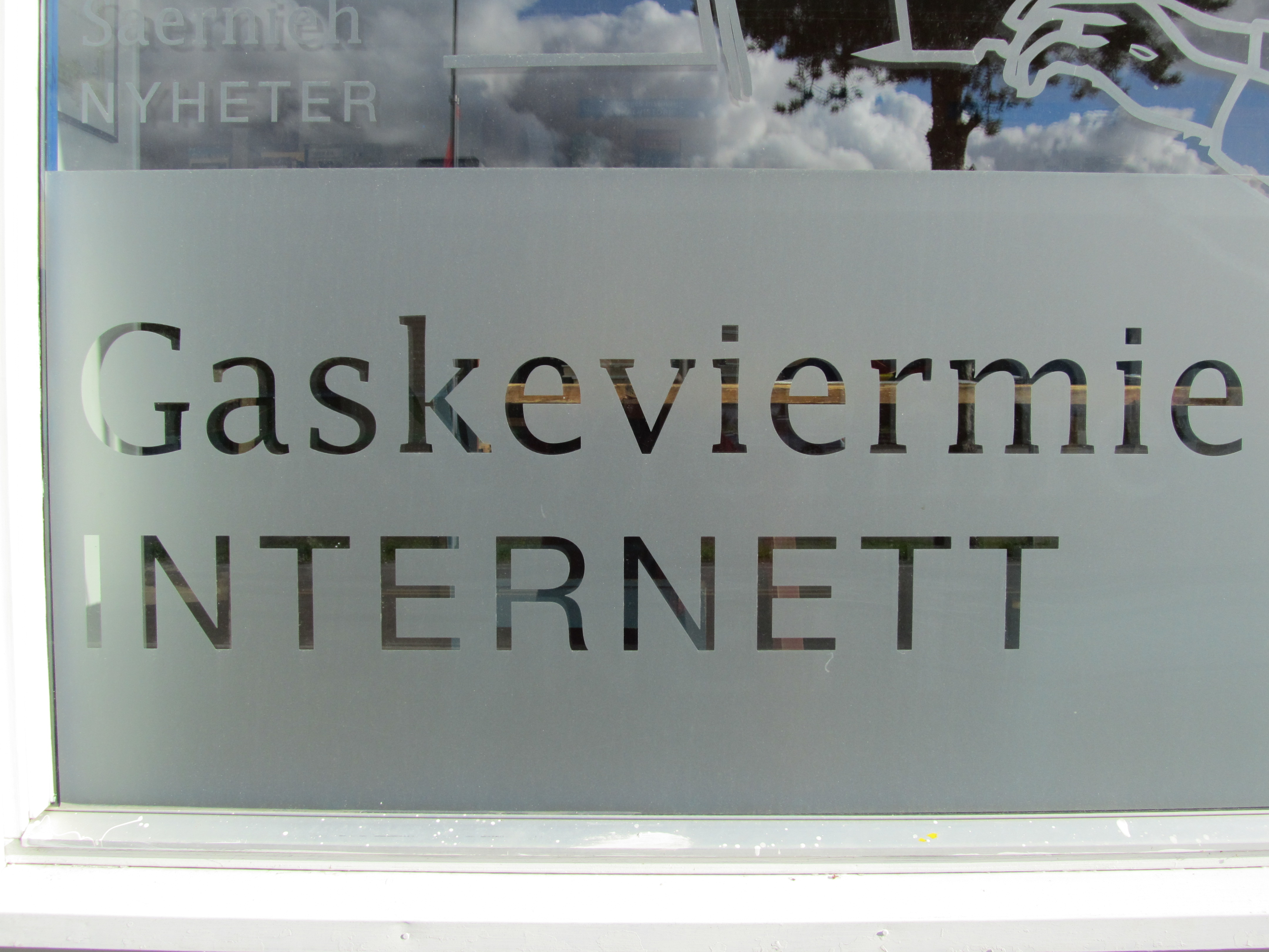 “Internet” sign in South Sami on window of Snåasen gærjagåetie/Snåsa bibliotek.